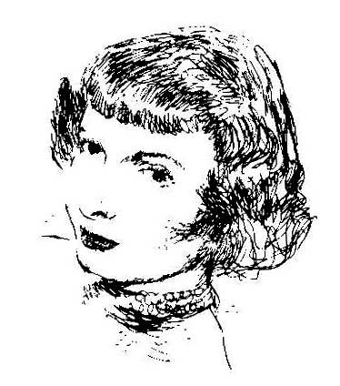 Arthur C. Clarke c. 1953